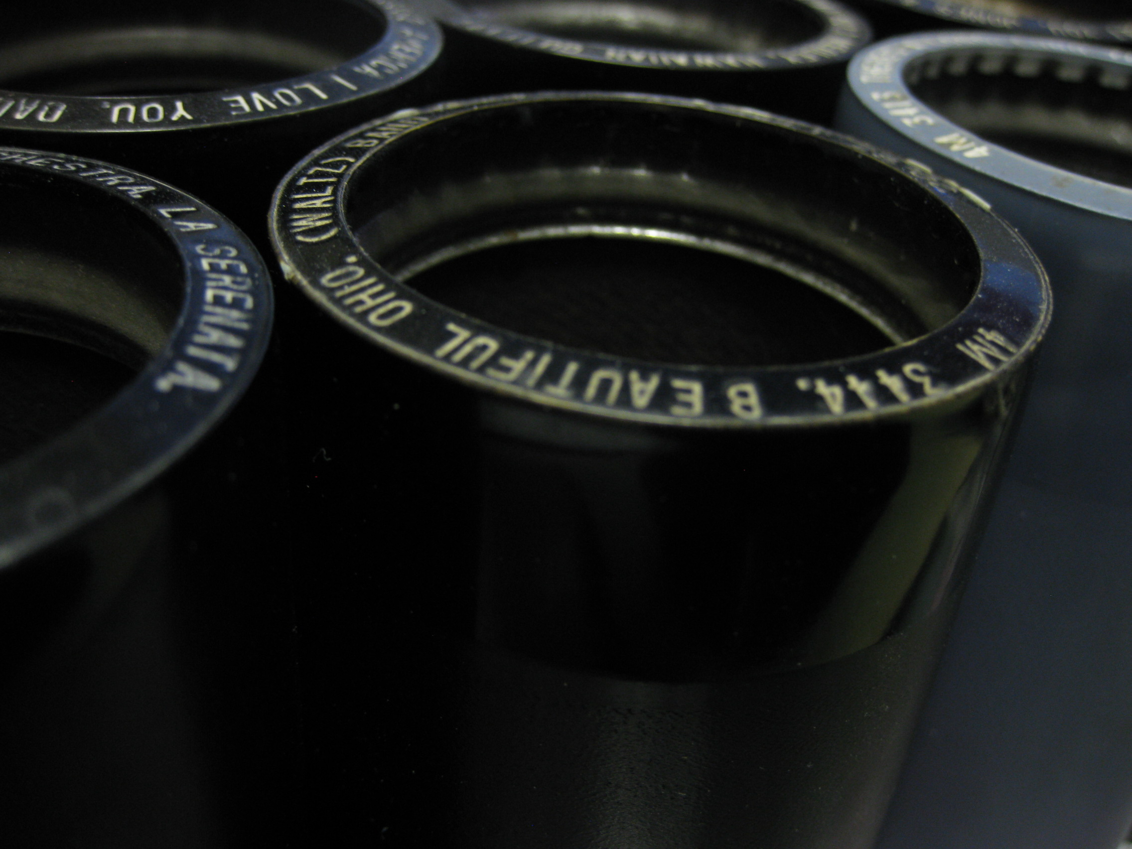 "Indestructible" 4-minutes celluloid cylinders with the typical metal reinforcing rings inside the cardboard